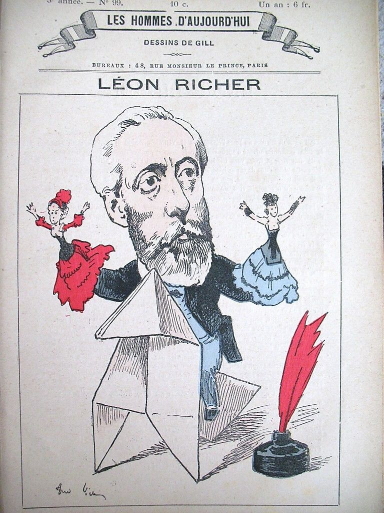 Caricature of Léon Richer from Les Hommes d'aujourd'hui